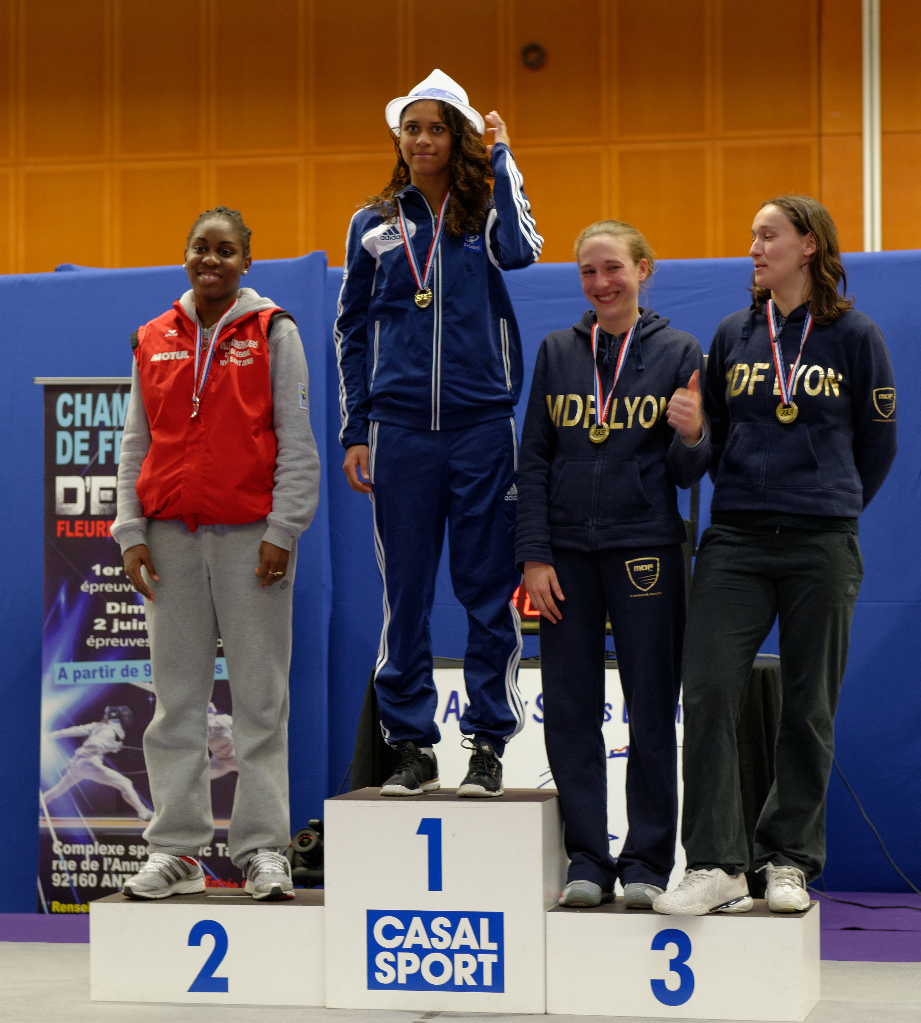 Men's foil podium in the French Fencing Championship; from left to right: Anita Blaze, Ysaora Thibus, Amélie Bonnier and Corinne Maîtrejean. Éric Tabarly Sports Complex in Antony, 2013.